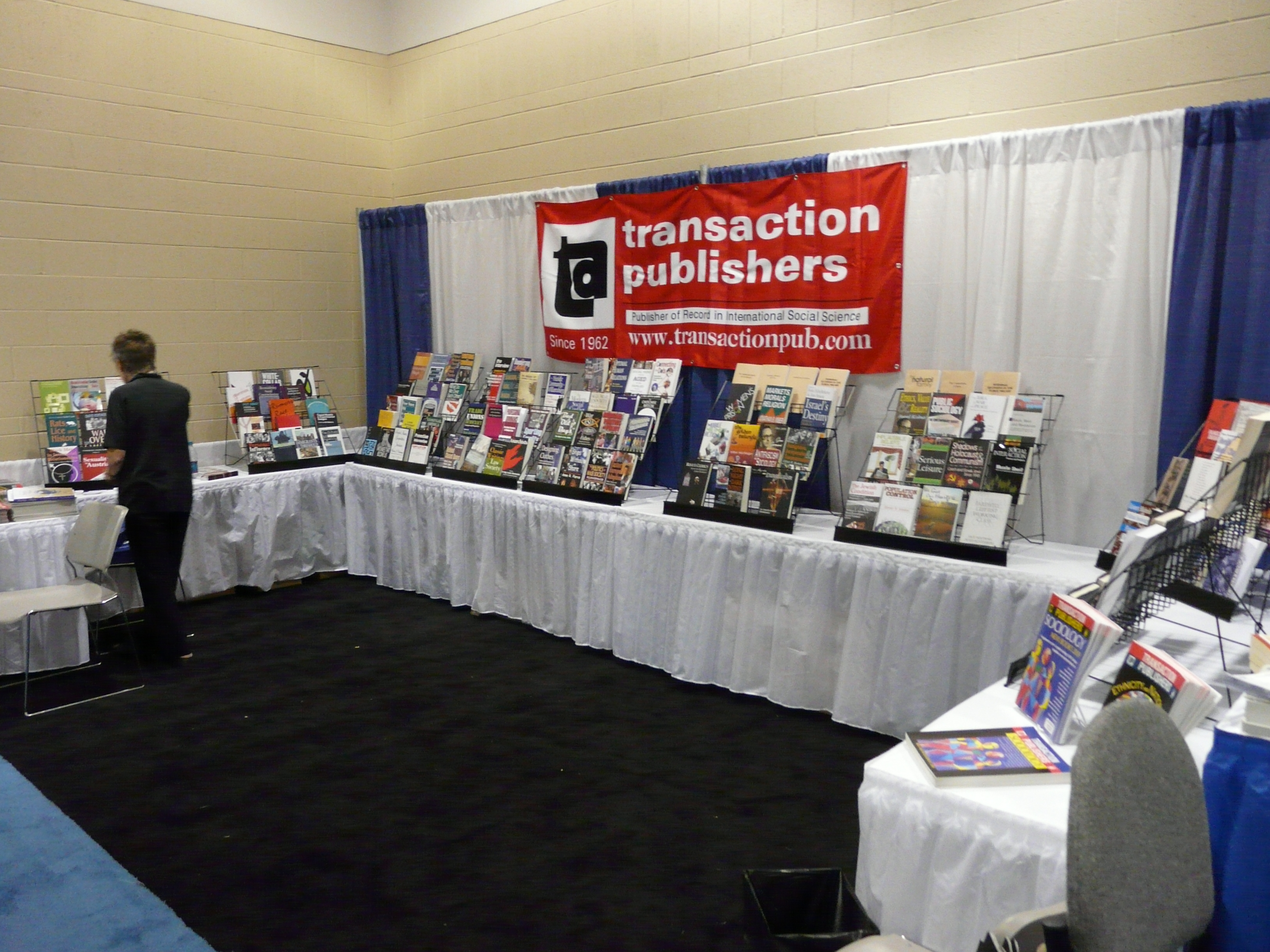 Boston. American Sociological Association conference.